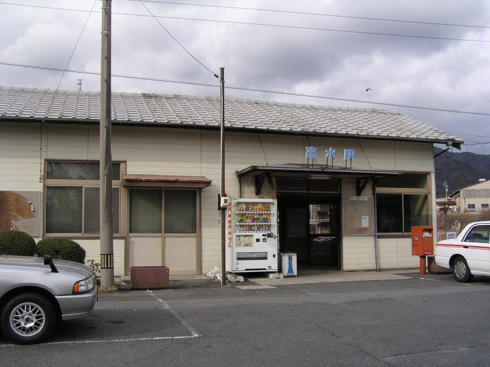 Shunan, Yamaguchi, Japan Takamizu Station